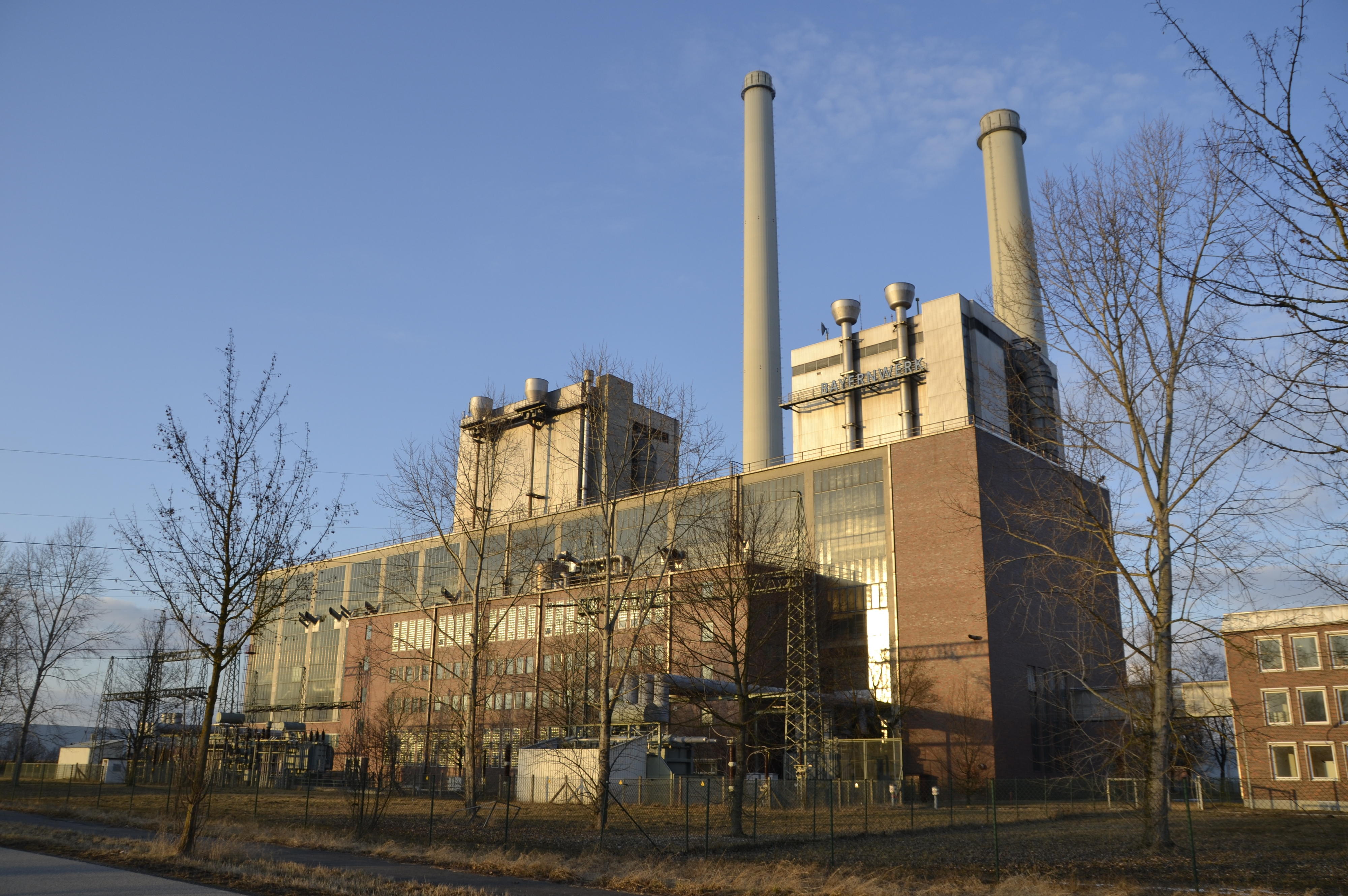 The former oil power plant Pleinting.